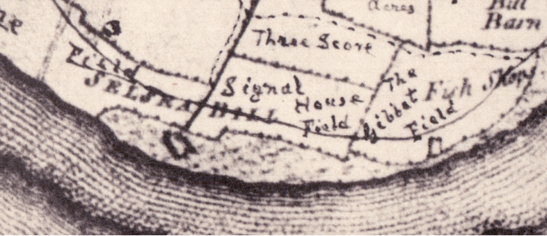 Section of 1778 Yeakell & Gardners map of Selsey, with annotations in 1906 by Cavis Brown.